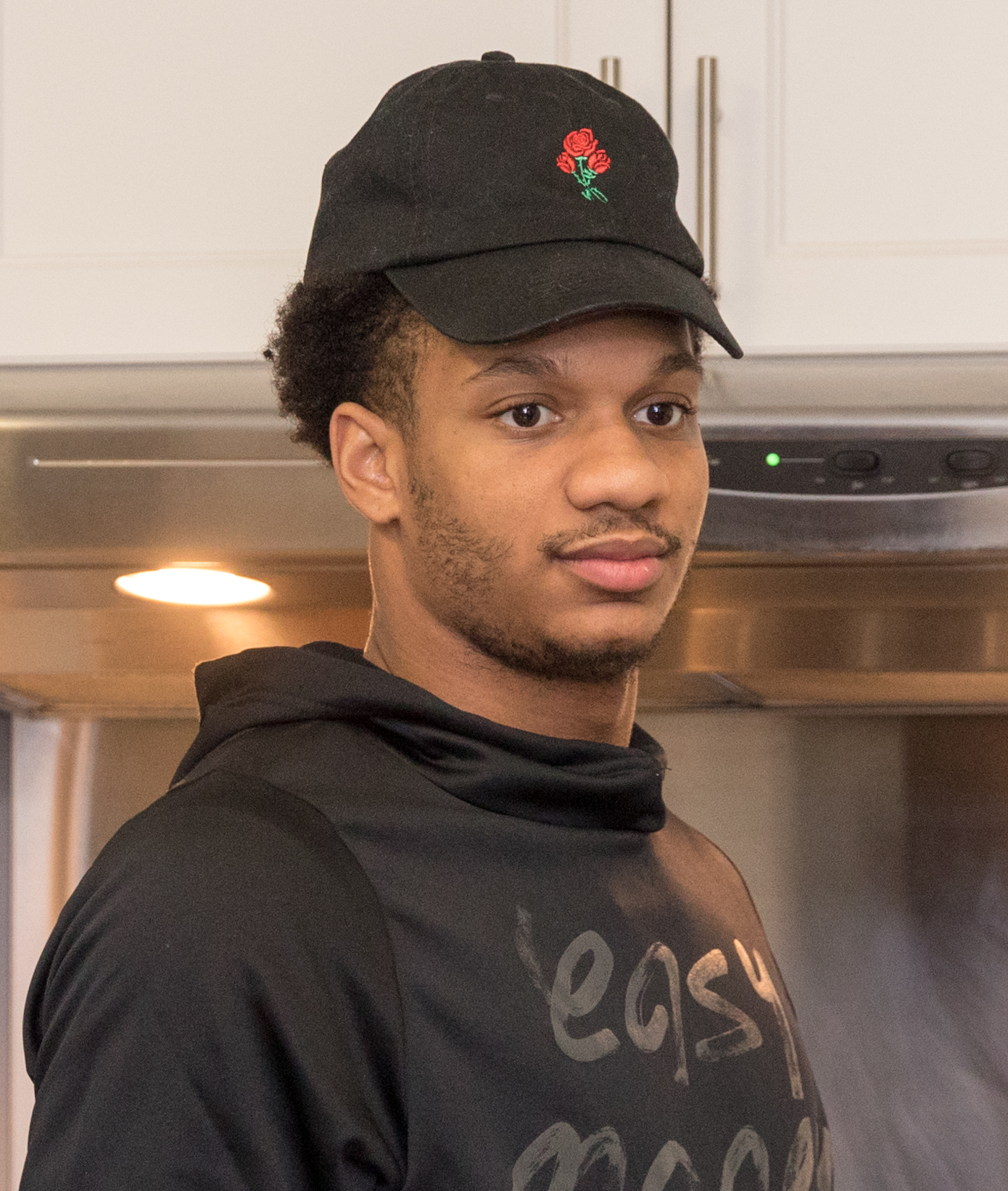 Milwaukee Bucks visited Veterans at Milwaukee VA’s Transition Residence House as part of Hoops for Troops—a collaborative program with the Department of Defense, USO, TAPS and other military and veteran-serving organizations to honor active and retired service men and women and their families.